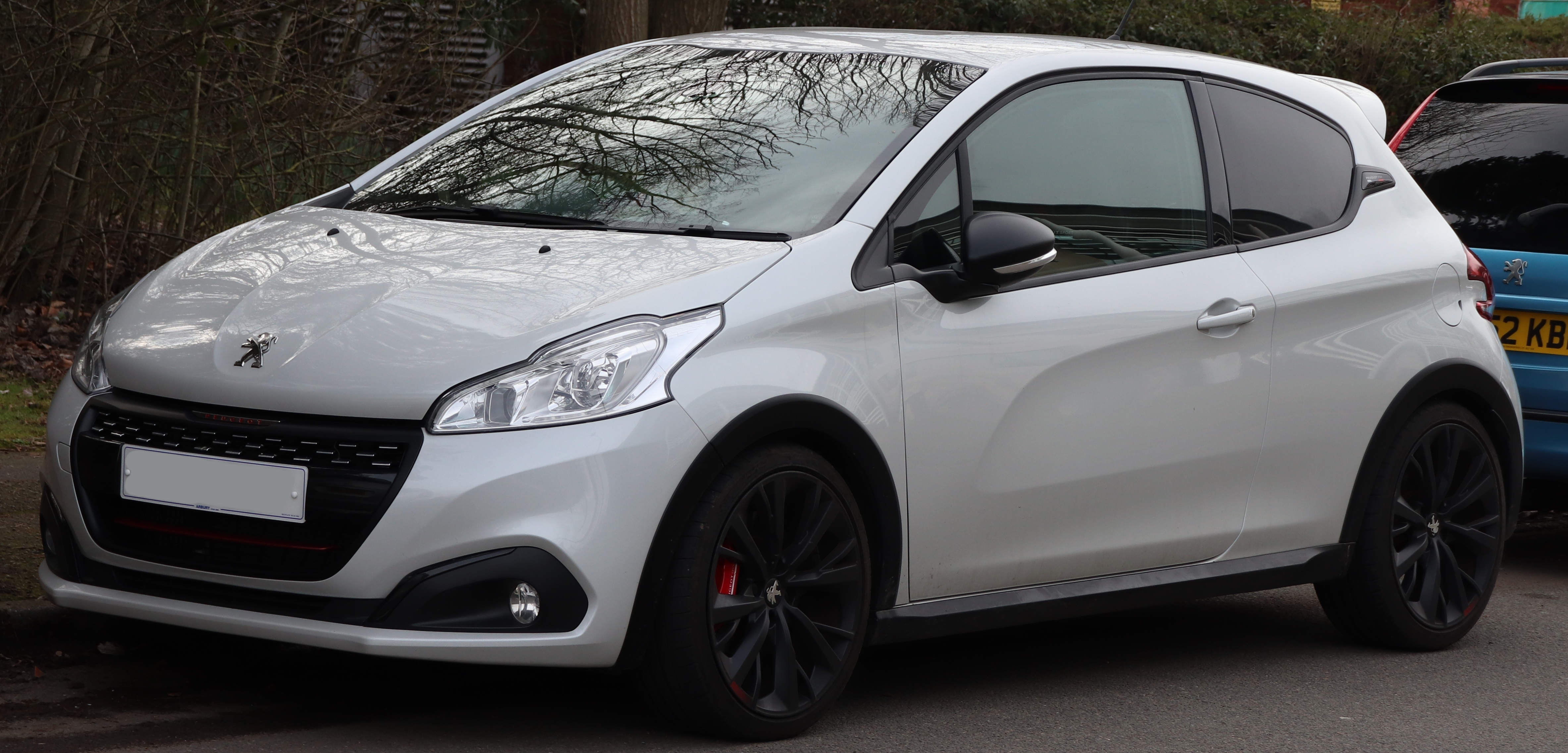 2017 Peugeot 208 GTi 1.6 Front Taken in Leamington Spa